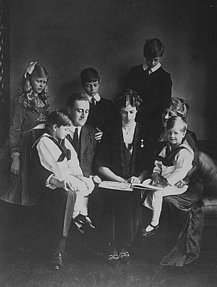 Franklin and Eleanor Roosevelt with children